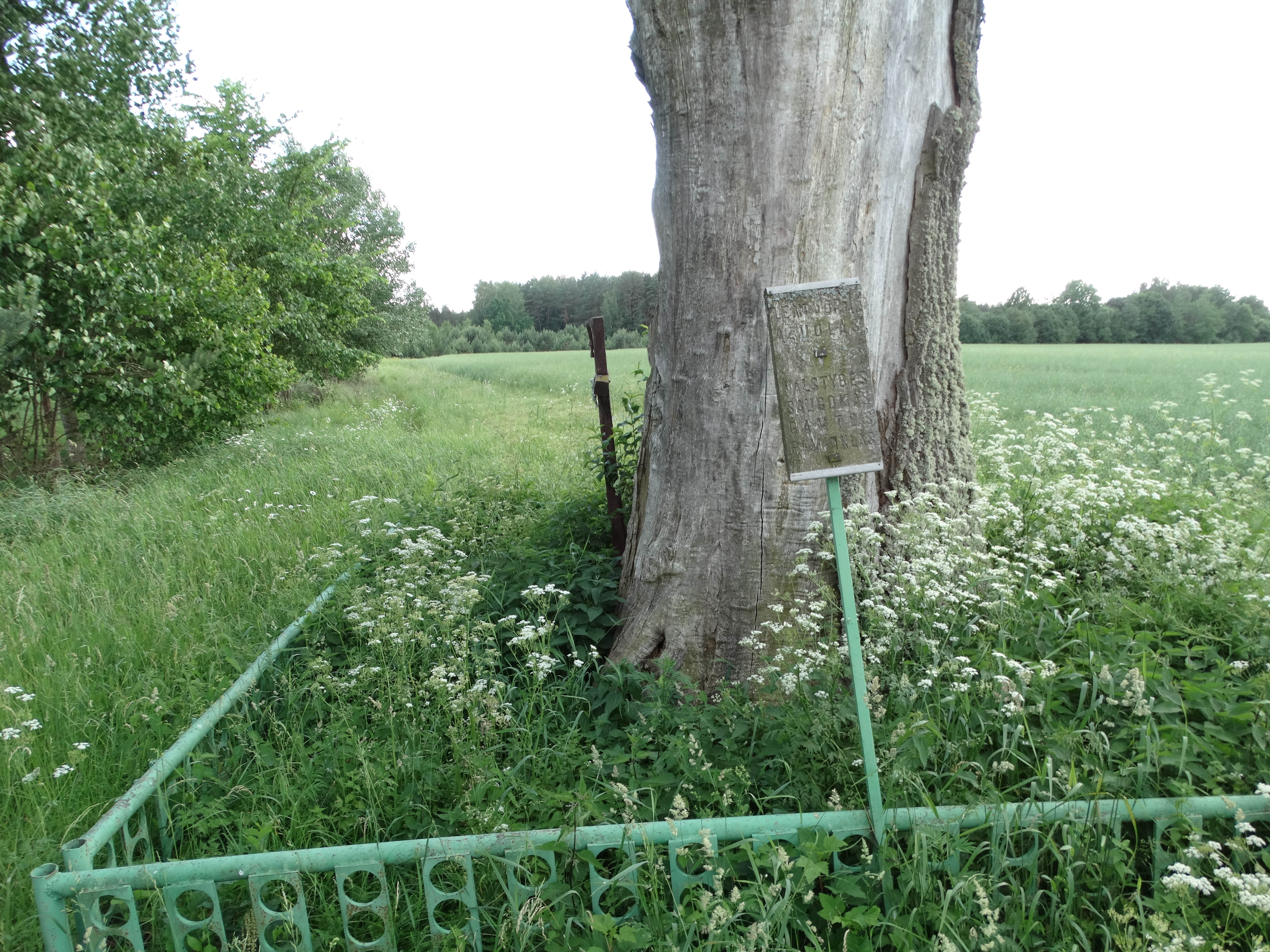 Oak by Lentvorai, Ukmergė district, Lithuania